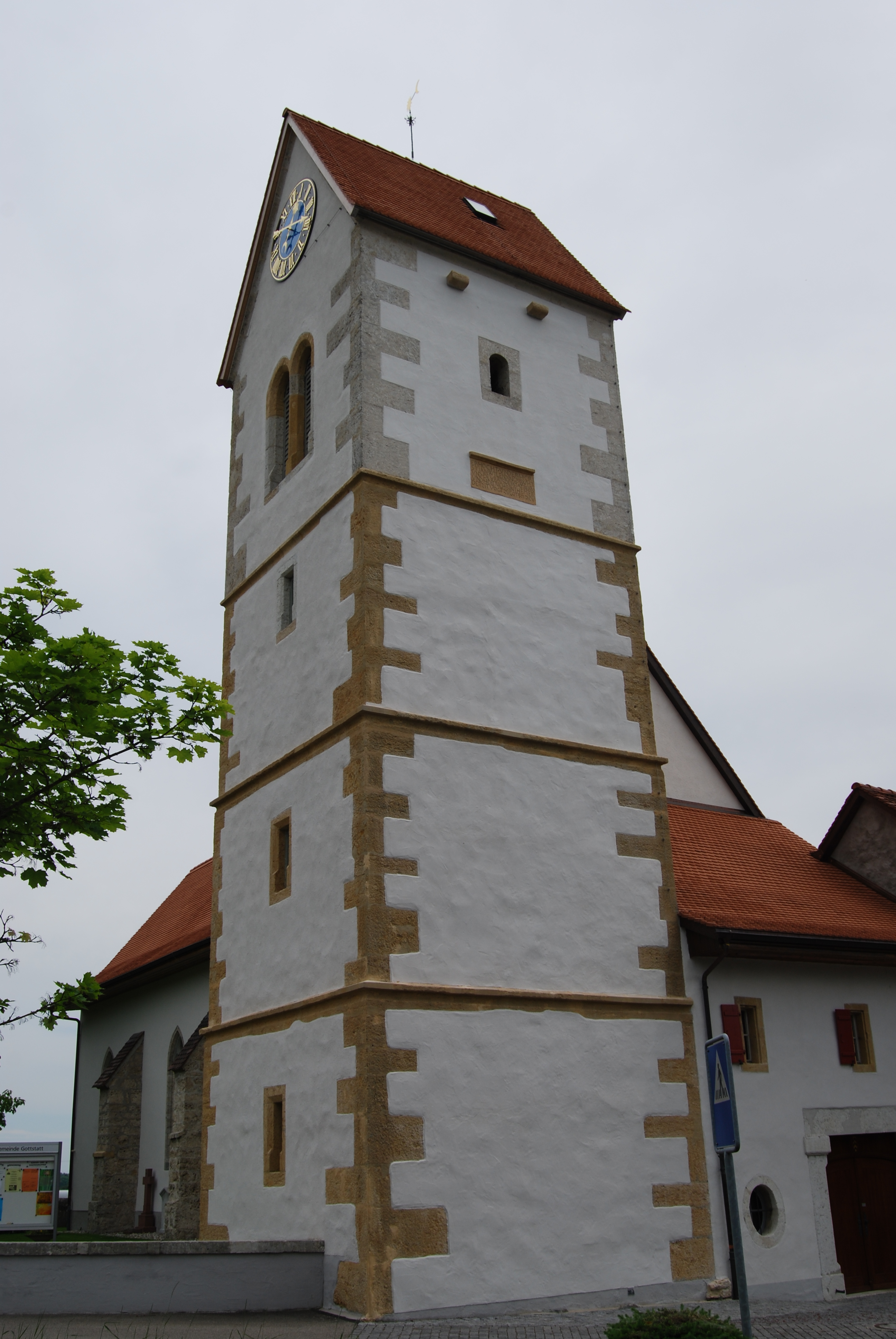 Monastery Church Gottstatt, Orpund, canton of Bern, SwitzerlandEsperanto: Monaĥeja Preĝejo Gottstatt, Orpund, Kantono Berno, Svislando